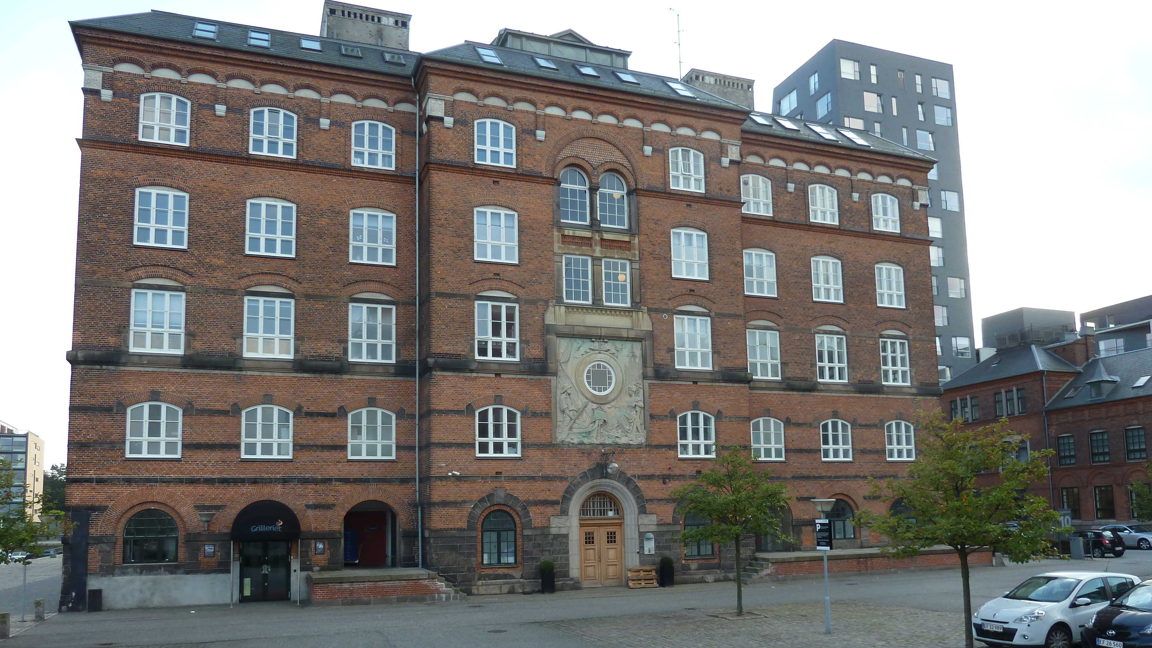 The building Manufakturhuset at 10 Dampfærgevej in Copenhagen, Denmark.